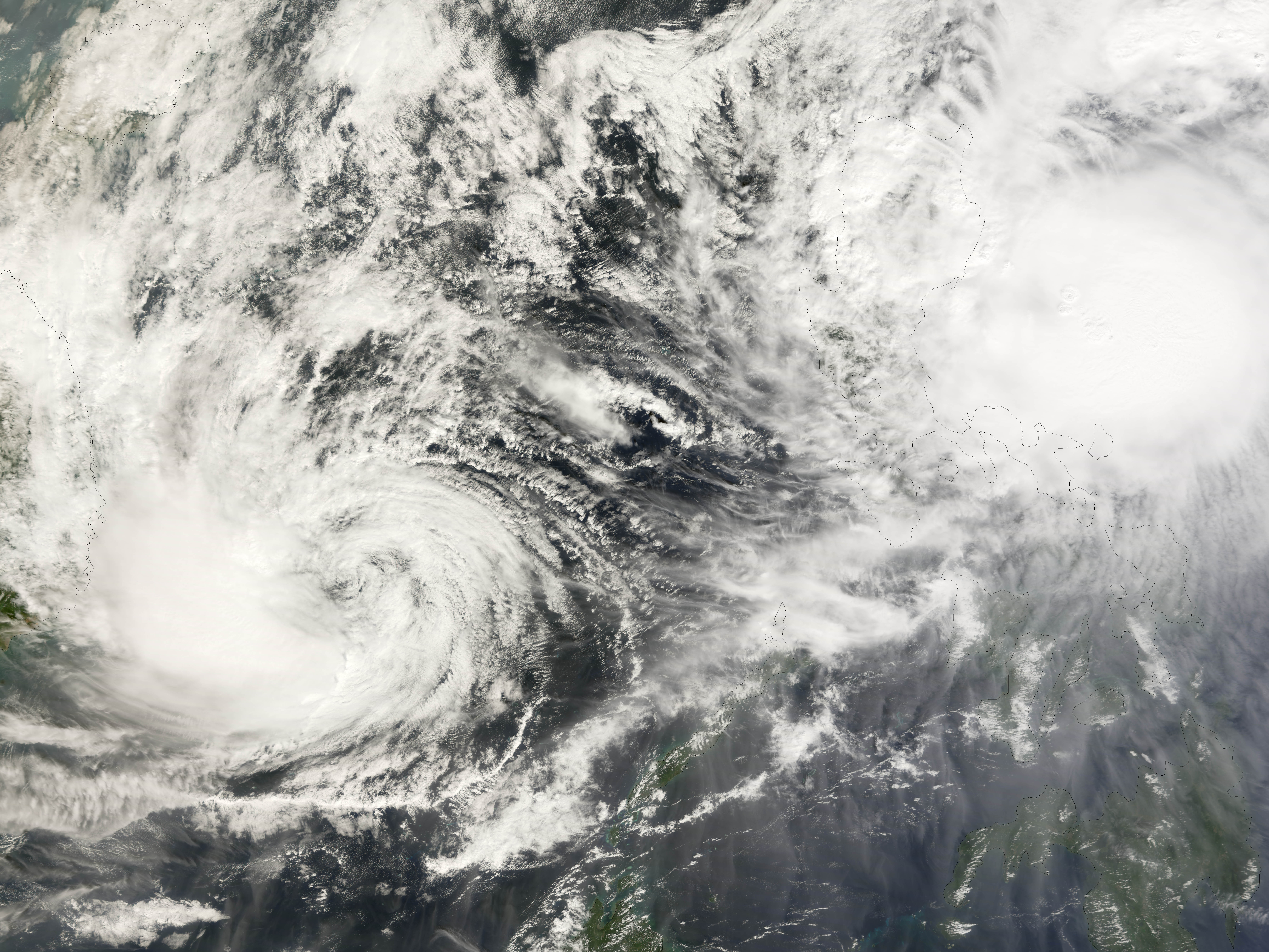 Typhoons Mitag and Hagibis flank the Philippines in this image, taken by the Moderate Resolution Imaging Spectroradiometer (MODIS) on NASA’s Terra satellite on November 25, 2007. At that time, Mitag (the storm on the right edge of the image) was about to strike the Philippine island of Luzon with winds of 150 kilometers per hour (90 miles per hour or 80 knots), according to the Joint Typhoon Warning Center. The storm is a dense cluster of clouds packed so tightly together that not even the signature swirling bands of the tropical cyclone are distinguishable. Mitag’s strong winds and heavy rain uprooted trees and caused landslides and floods when the storm struck northern Luzon on November 25, reported the Australian Broadcasting Corporation News. Eight people died in floods brought on by Mitag’s rains in southern Luzon, said ABC News. Hagibis, meanwhile, had just completed an about-face and was heading back towards Luzon. The storm crossed the Philippines on November 19 and had been tracking towards Vietnam before boomeranging back towards the Philippines on November 24. Shown on the left, Hagibis is a loose swirl of clouds. At this time, the storm’s winds had slowed to 65 km/hr (40 mph or 35 knots), barely qualifying it to be a tropical storm. The Joint Typhoon Warning Center forecast that the storm would continue to degrade into a tropical depression before crossing southern Luzon on November 27. Hagibis killed 13 people the first time it struck the Philippines, said ABC News.